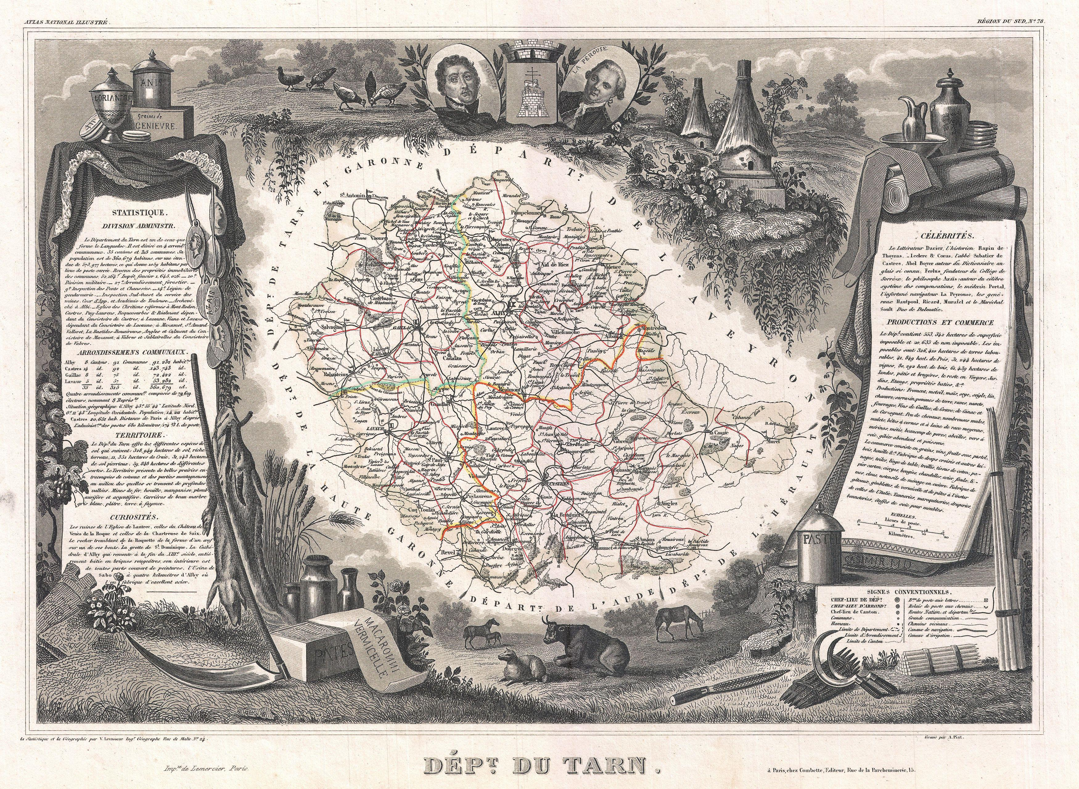 This is a fascinating 1852 map of the French department of Tarn, France. This area produces a variety of traditional wines, including Cahors, Mauzac, Loin de l’Oeil and Ondenc for the white varieties and Braucol, Duras and Prunelart for the reds. The map proper is surrounded by elaborate decorative engravings designed to illustrate both the natural beauty and trade richness of the land. There is a short textual history of the regions depicted on both the left and right sides of the map. Published by V. Levasseur in the 1852 edition of his Atlas National de la France Illustree.